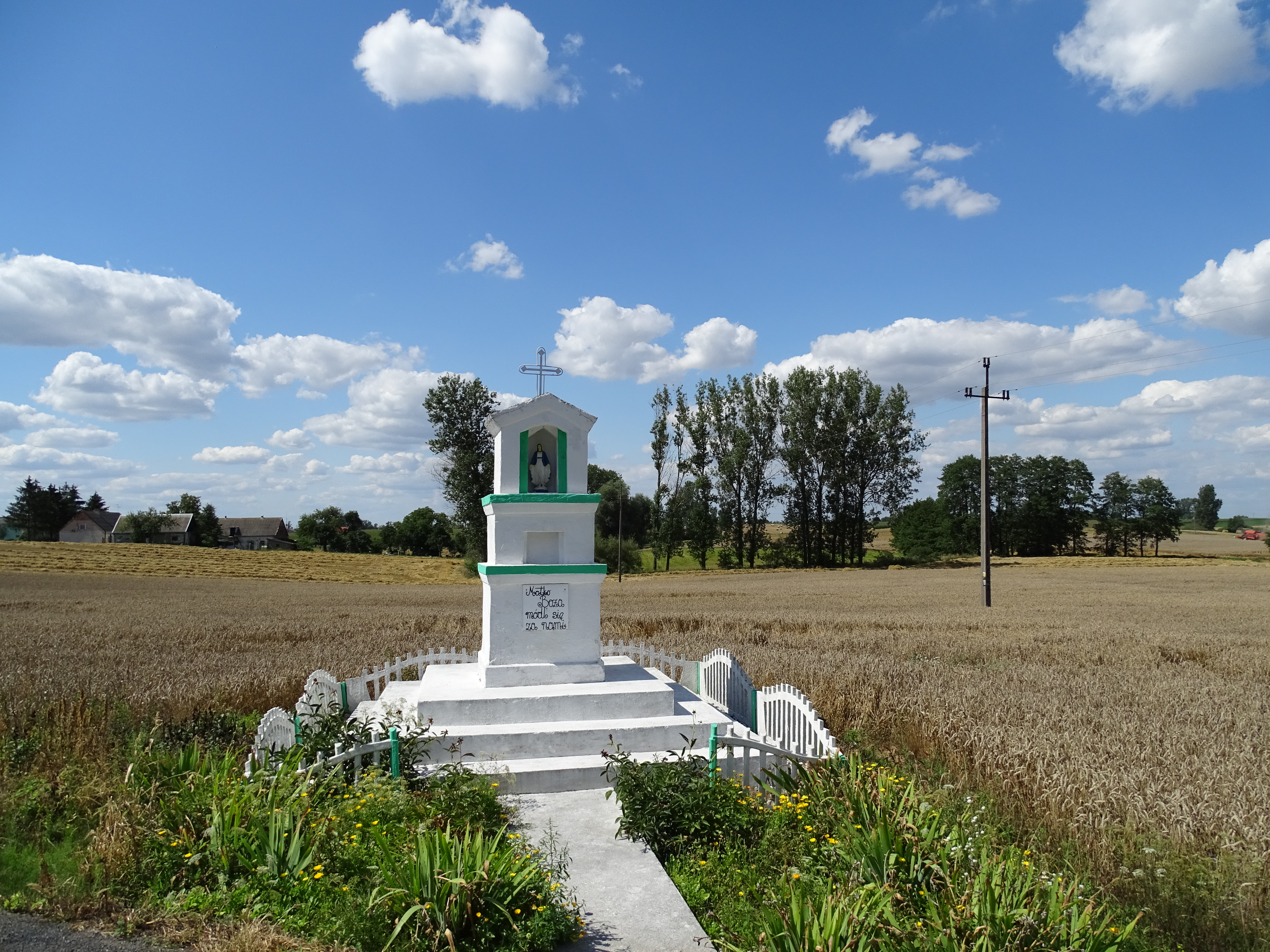 Czamanin, Gmina Topólka, Radziejów county, Poland. The wayside shrine.